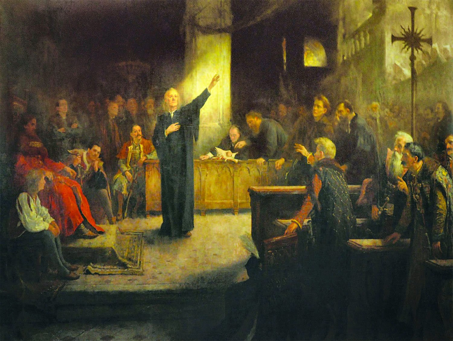 Declaration of Religious and Conscience Freedom in the Diet of Torda by Ferenc Dávid in 1568